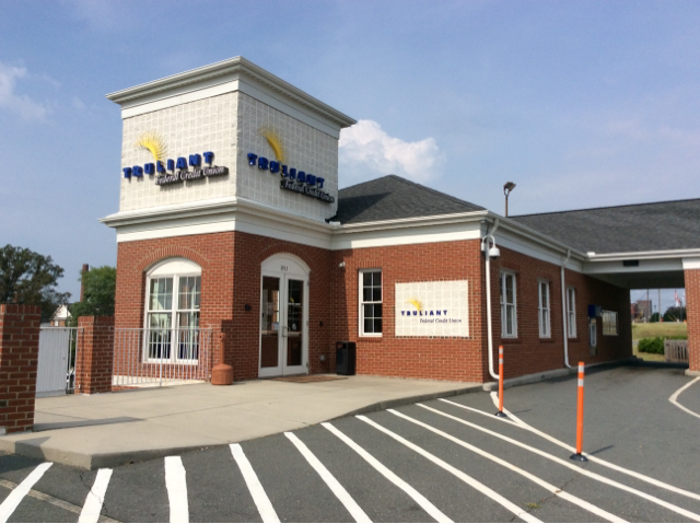 victory mfc